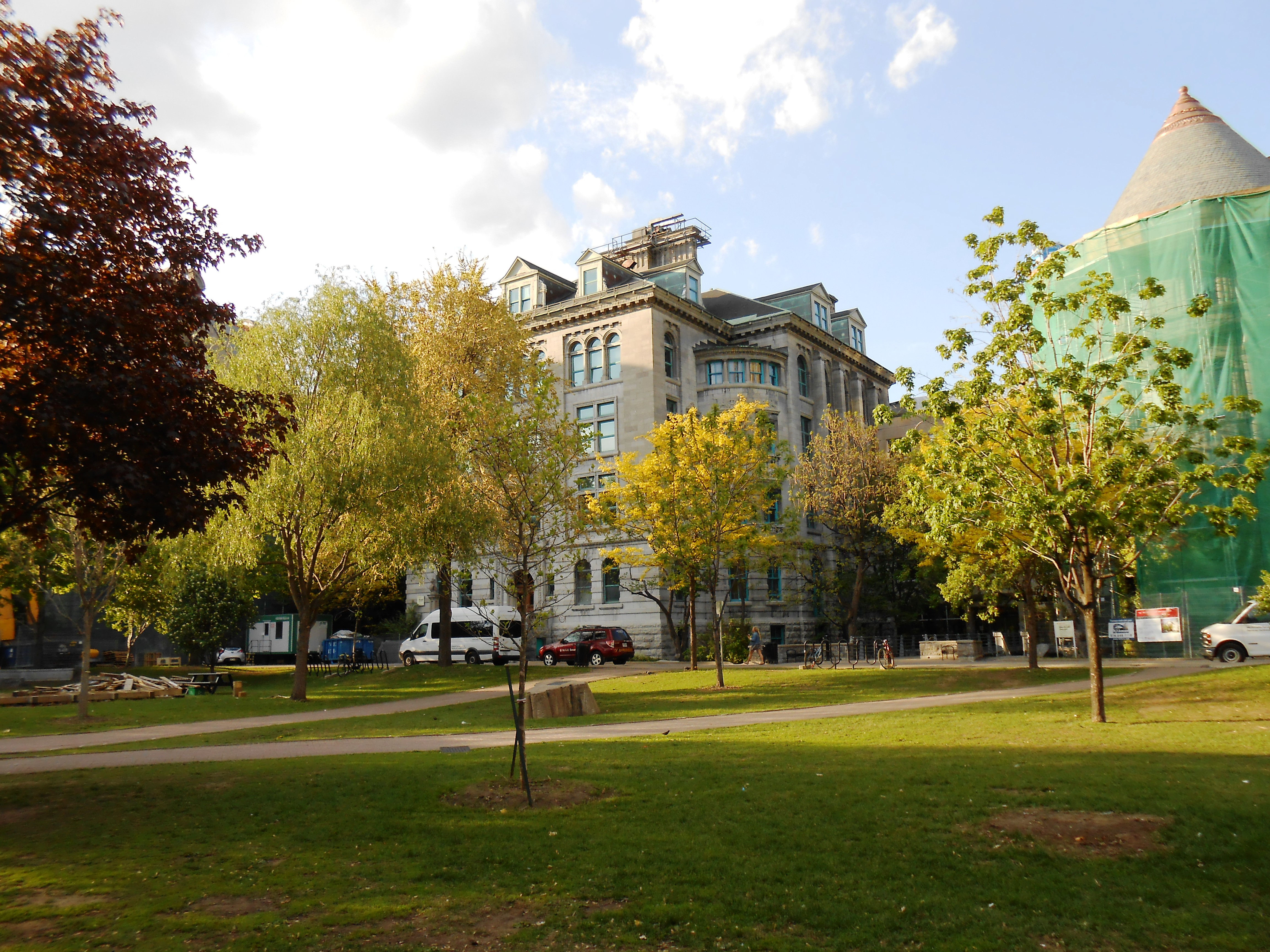 McGill University downtown campus, Montreal